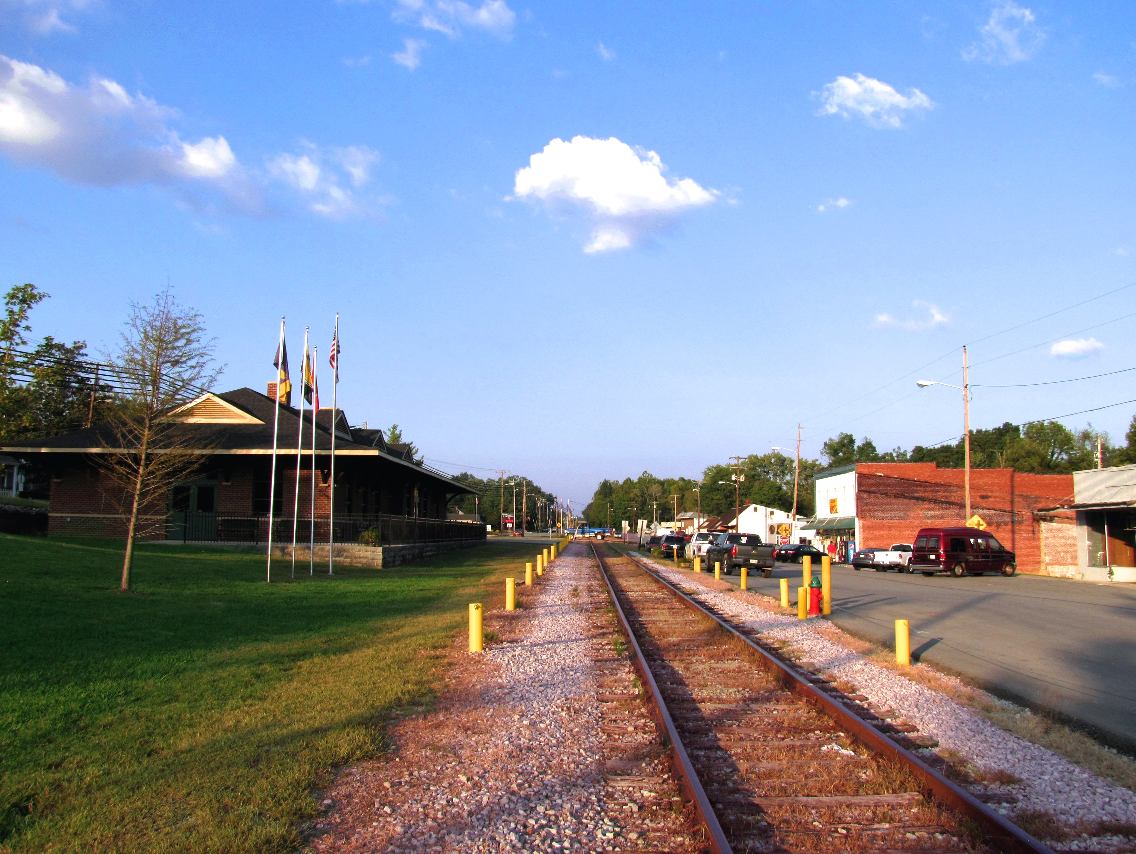 View along the railroad tracks and Broad Street in Baxter, Tennessee, United States.